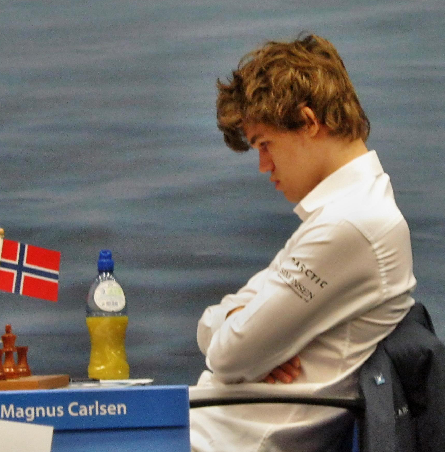 Magnus Carlsen, chess grandmaster from Norway